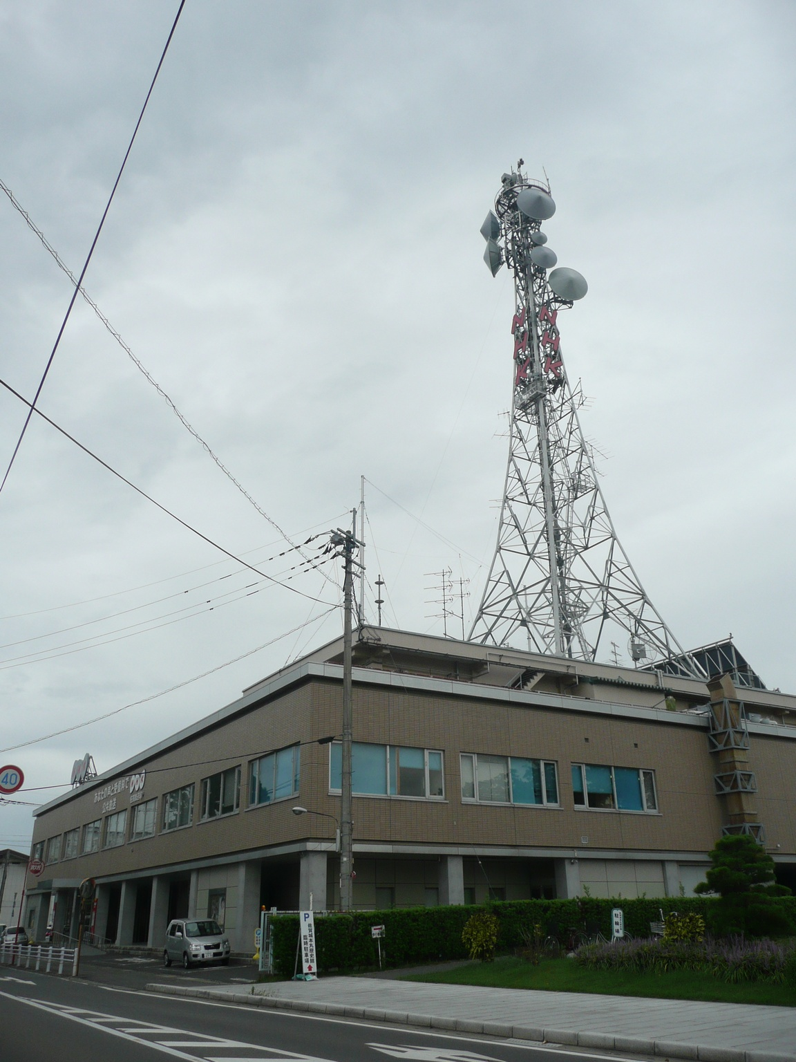 NHK Saga (JOSP-(D)TV,JOSD-(D)TV)